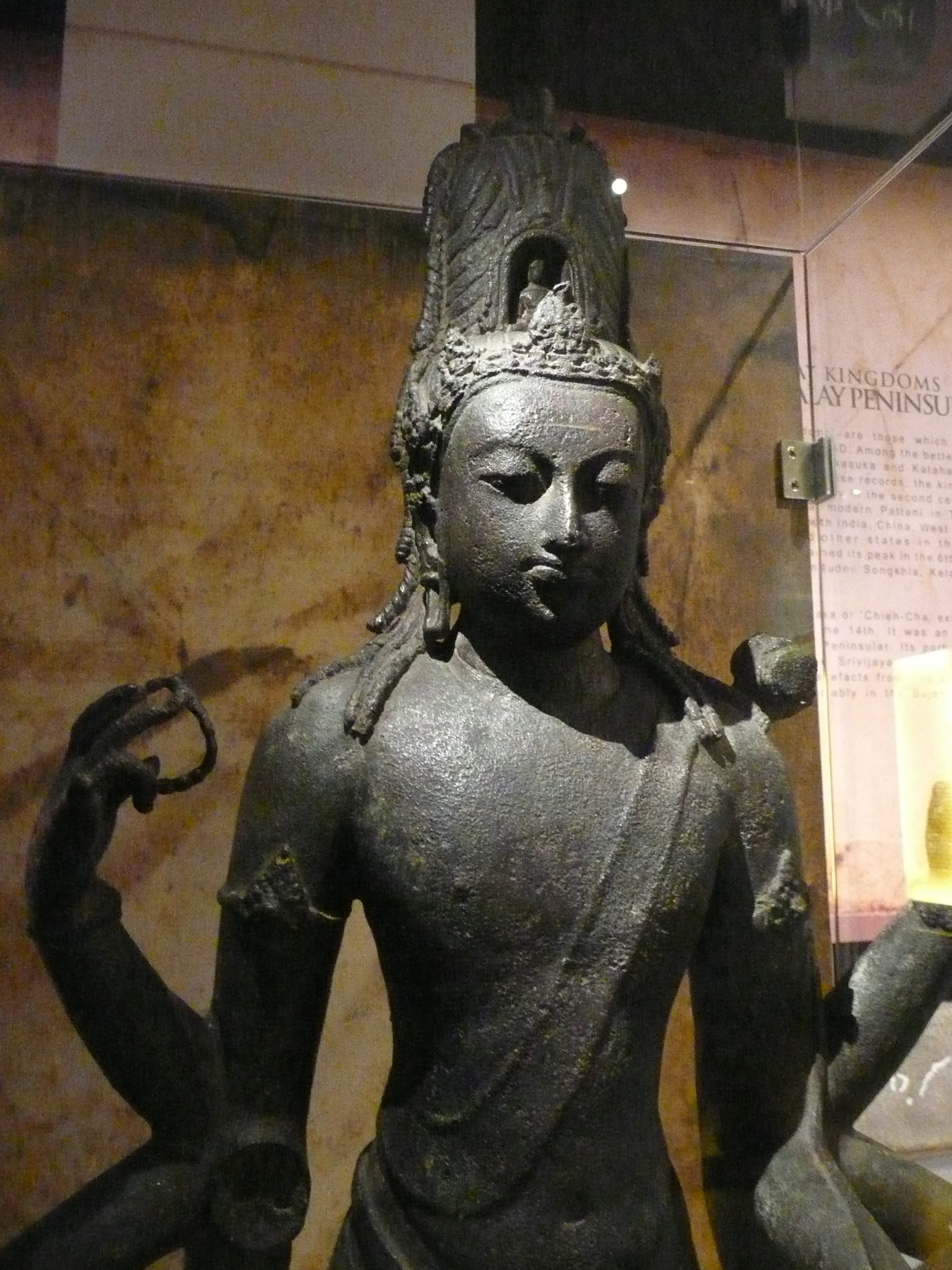 Avalokiteshvara statue found at Anglo Oriental, Bidor, Perak tin mine in year 1936. 8th-9th century bronze with eight arms. 79 cm height. National Museum in Kuala Lumpur, Malaysia.